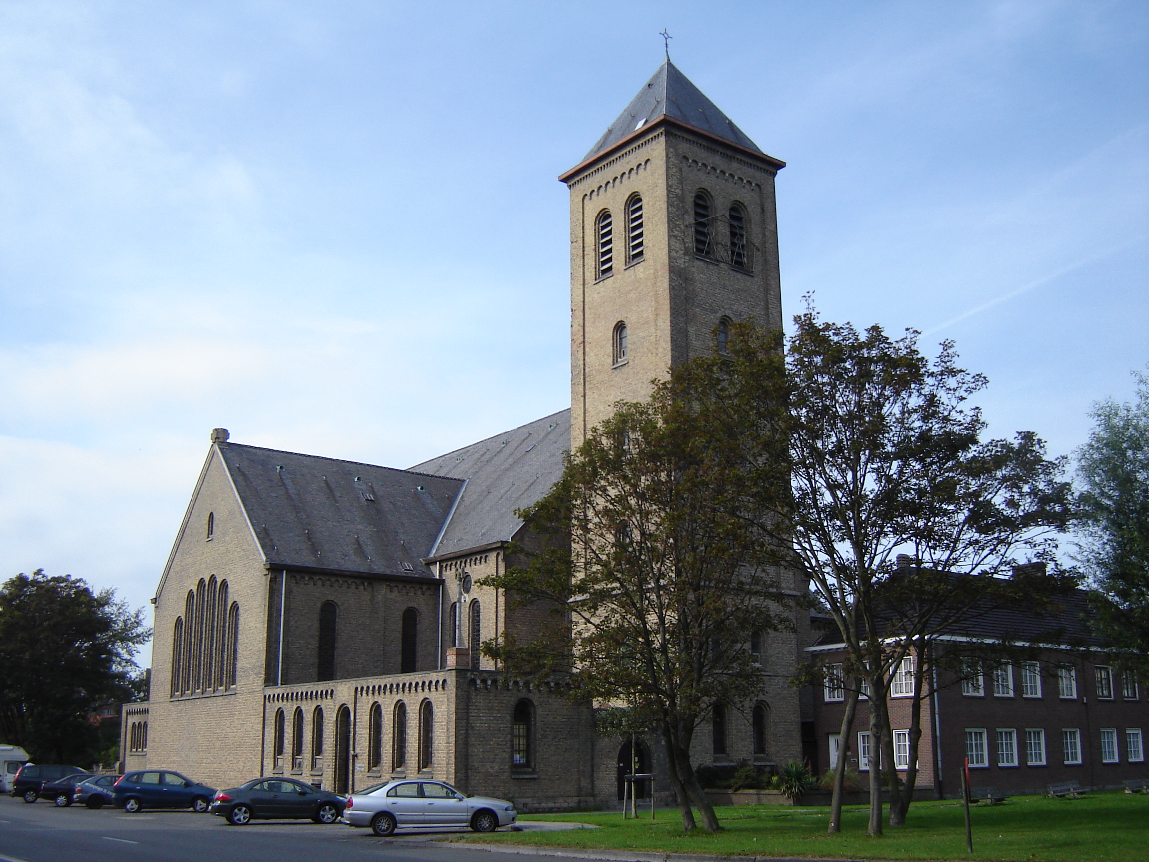 Church of Saint John the Baptist in Oostende. Oostende, West Flanders, Belgium